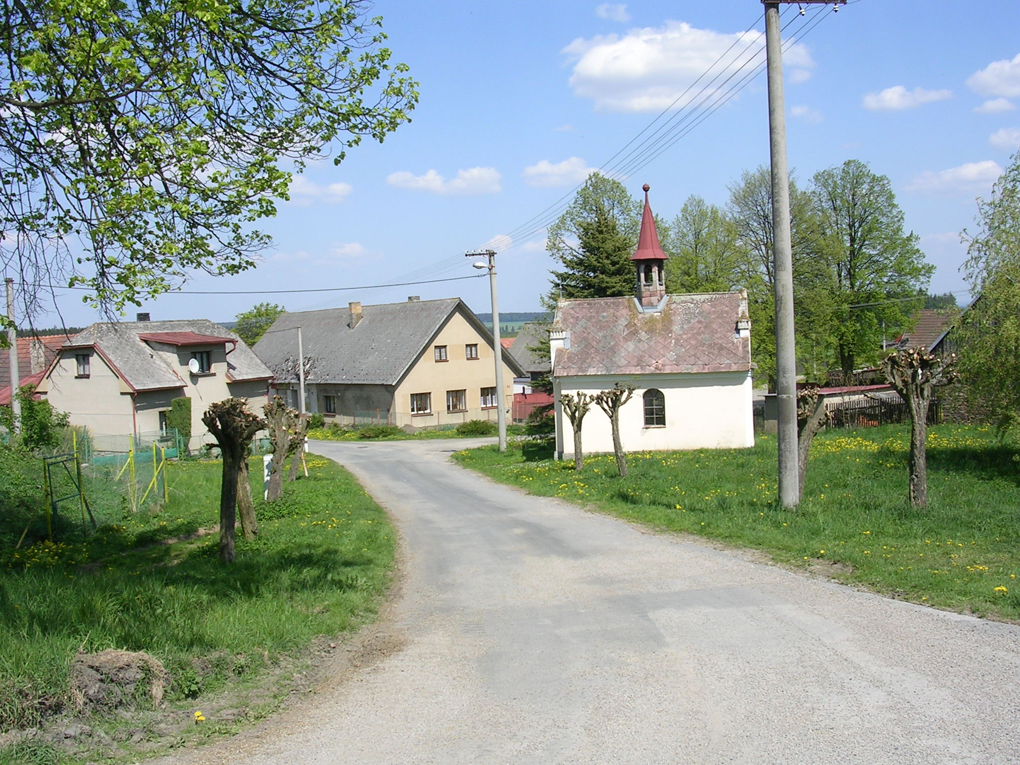 Načeradec-Slavětín, Central Bohemian Region, the Czech Republic.